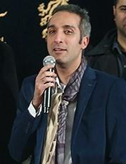 Day 4 of 35th Fajr International Film Festival at Mellat Pardis